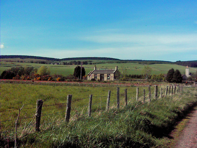 Wardhouse Railway Station From the past when trains were seen as a service, this was the station of Wardhouse, even though Insch and Kennethmont stations were no more than 3 miles away.